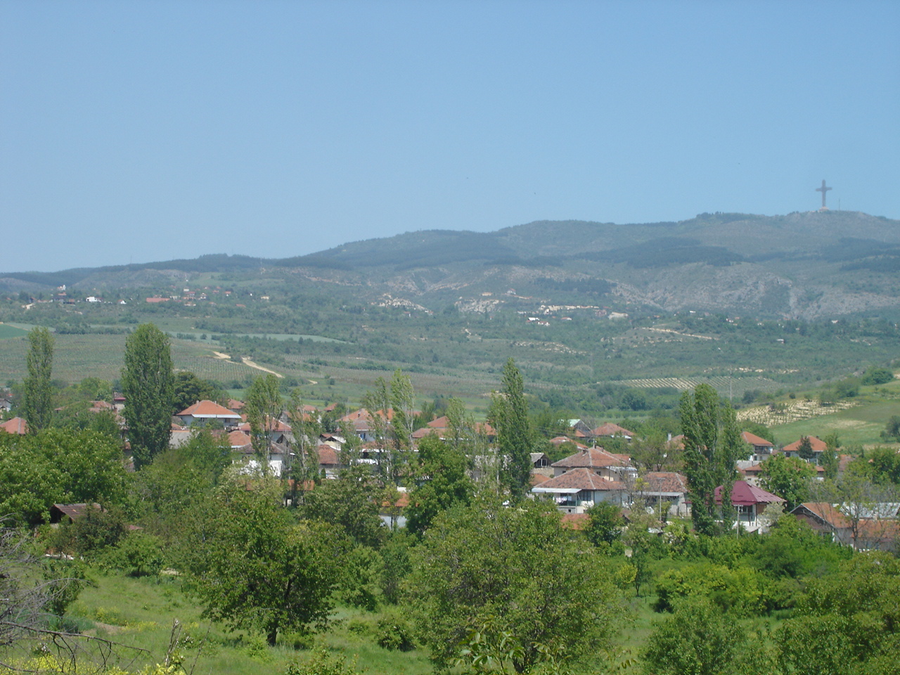 village of Dobri Dol, near Skopje, Macedonia